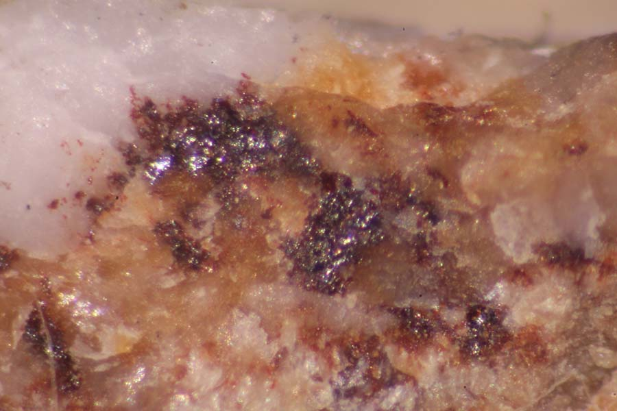 Dark red crystals of palenzonaite, a very rare Ca-Na-Mn vanadate found only in a very few localities worldwide. This sample comes from Molinello (Molinello Mine, Graveglia Valley, Liguria, Italy), the most typical locality for the mineral and also the type locality.